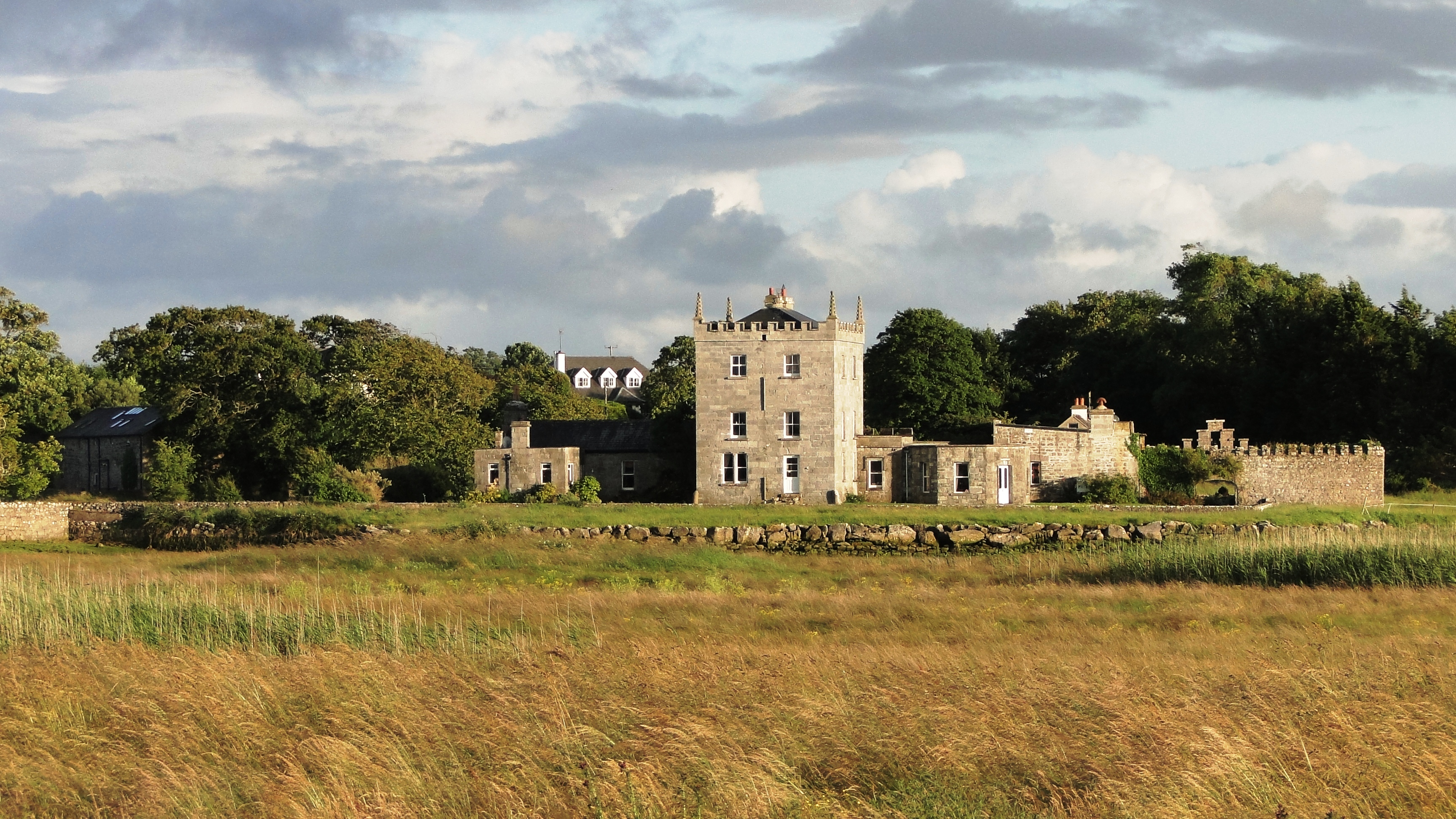 Kilcolgan Castle, Kilcolgan, County Galway, Ireland, viewed across the Kilcolgan River